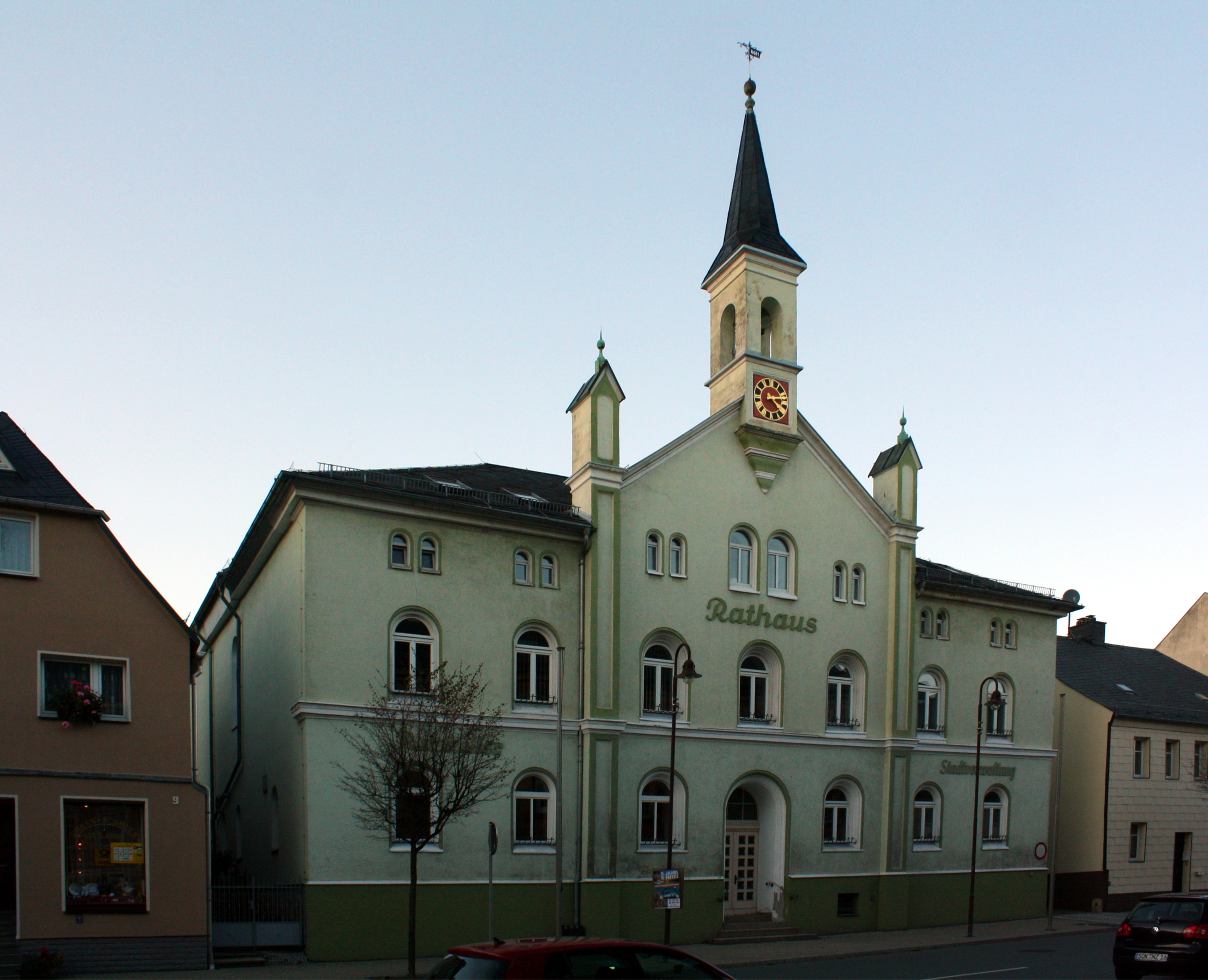 Town hall in Gefell near Schleiz/Thuringia